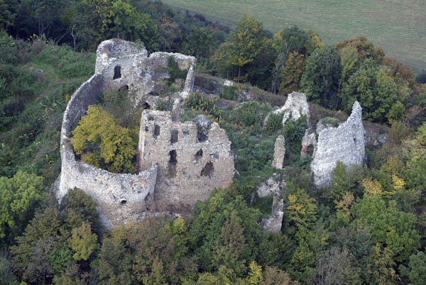 Jasenov Castle, Slovakia, aerial photography